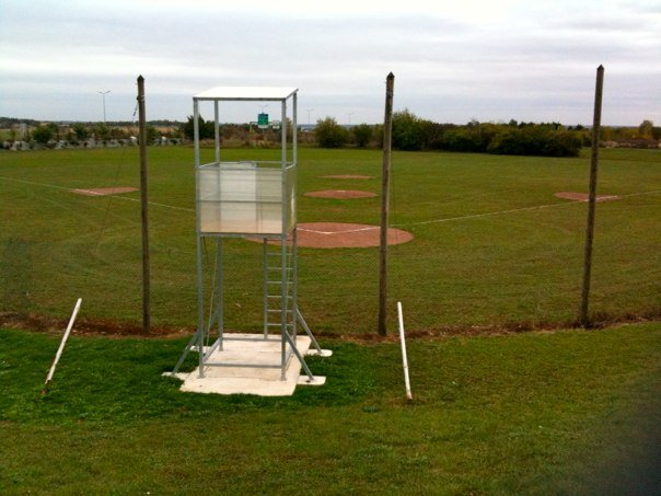 Duc baseball Park